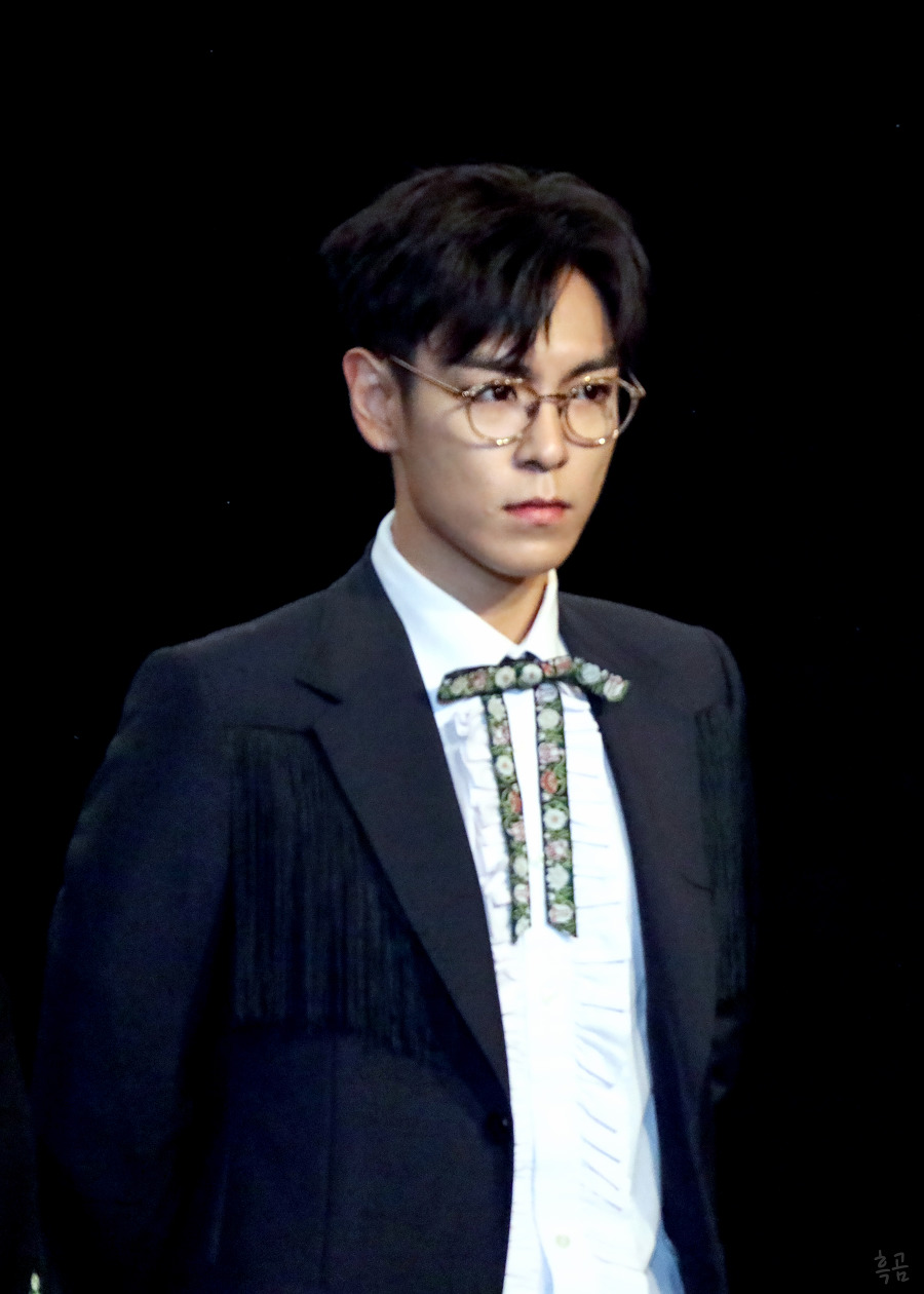 Big Bang members in the premiere of their movie "MADE" in June 28, 2016